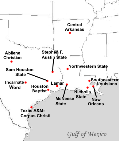 Locations of Southland Conference full member institutions. Personal creation in Photoshop; All rights released to the public to do whatever they want with it.